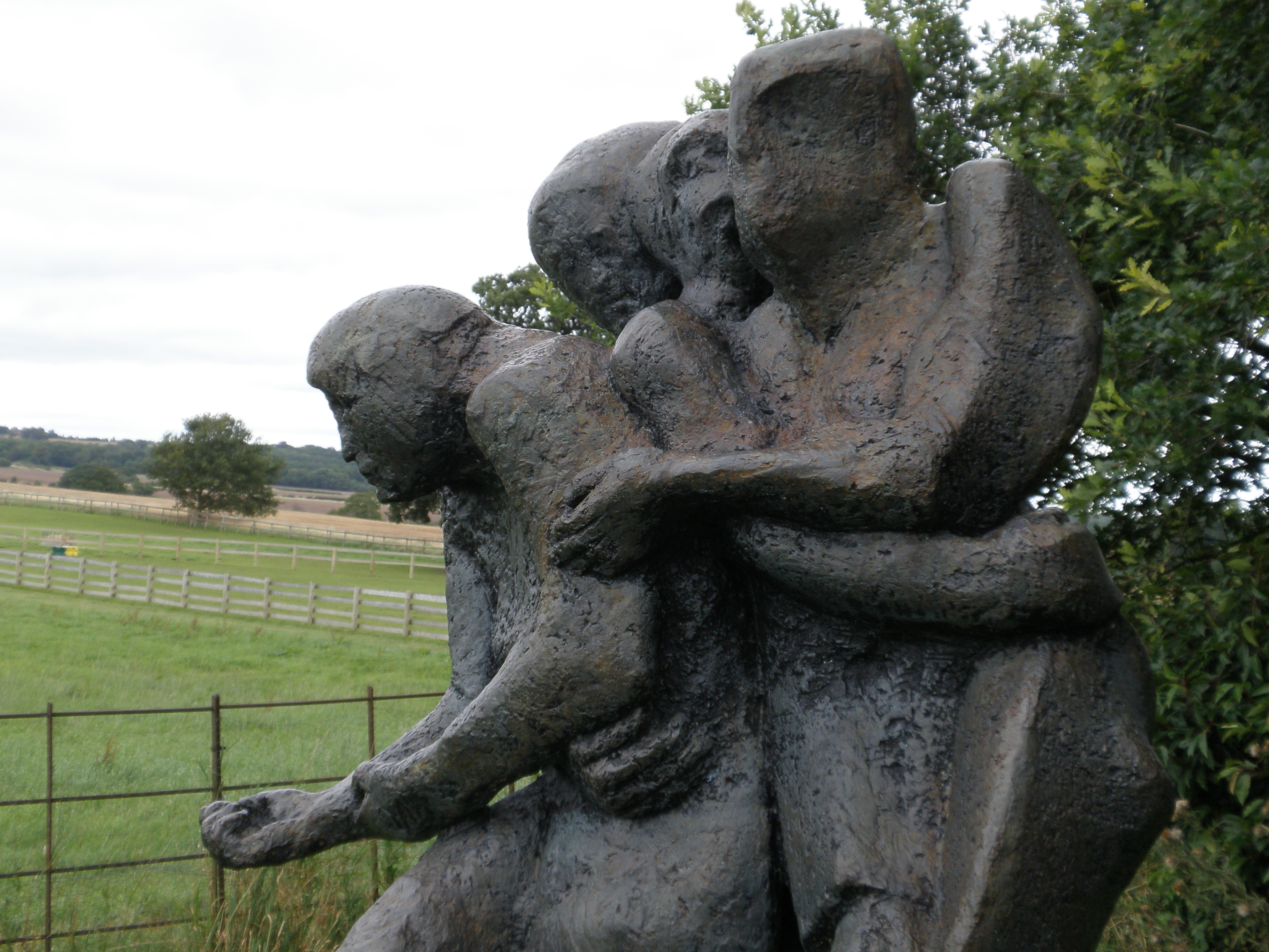 Ragley Hall is the family home of the 9th Marquess and Marchioness of Hertford and the seat of the Conway-Seymour family. The hall was designed in 1680 by Robert Hooke, friend of Sir Christopher Wren. It was completed in the 18th Century by James Gibbs who designed the Great Hall, the exceptional plasterwork in the main reception rooms and the impressive stable block in the 1750s and James Wyatt who added the central portico in 1780. The hall stands in four hundred acres of picturesque parkland landscaped by Lancelot 'Capability' Brown in the 18th Century, and twenty seven acres of formal gardens laid out by Robert Marnock in 1873. The park and gardens provide a spectacular and unique setting for the Jerwood Sculpture collection.